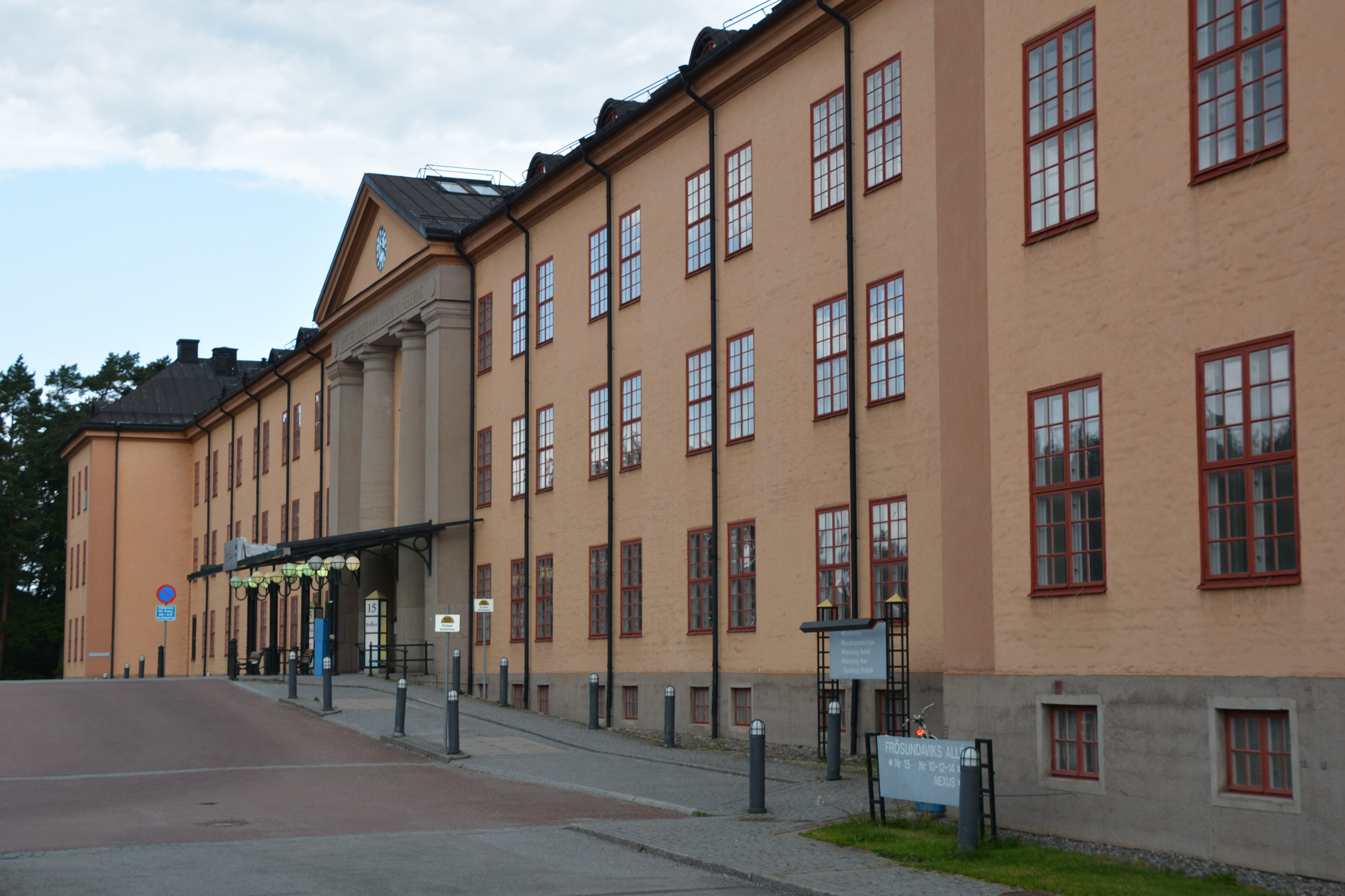 Radisson Blu Royal Park Hotel, Frösundavik, Stockholm, Sweden